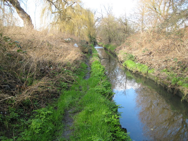 Pyl Brook in Morden Pyl Brook is a tributary of Beverley Brook that flows into the River Thames near Barnes.